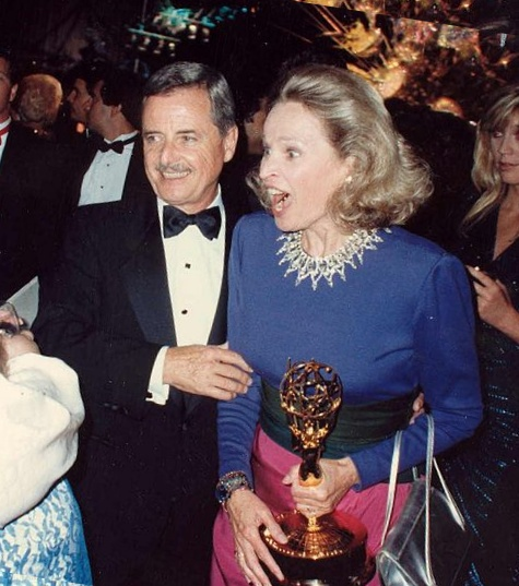 William Daniels & Bonnie Bartlett, 39th Emmy Awards - Governor's Ball - Stars of St. Elsewhere - Sept. 1987